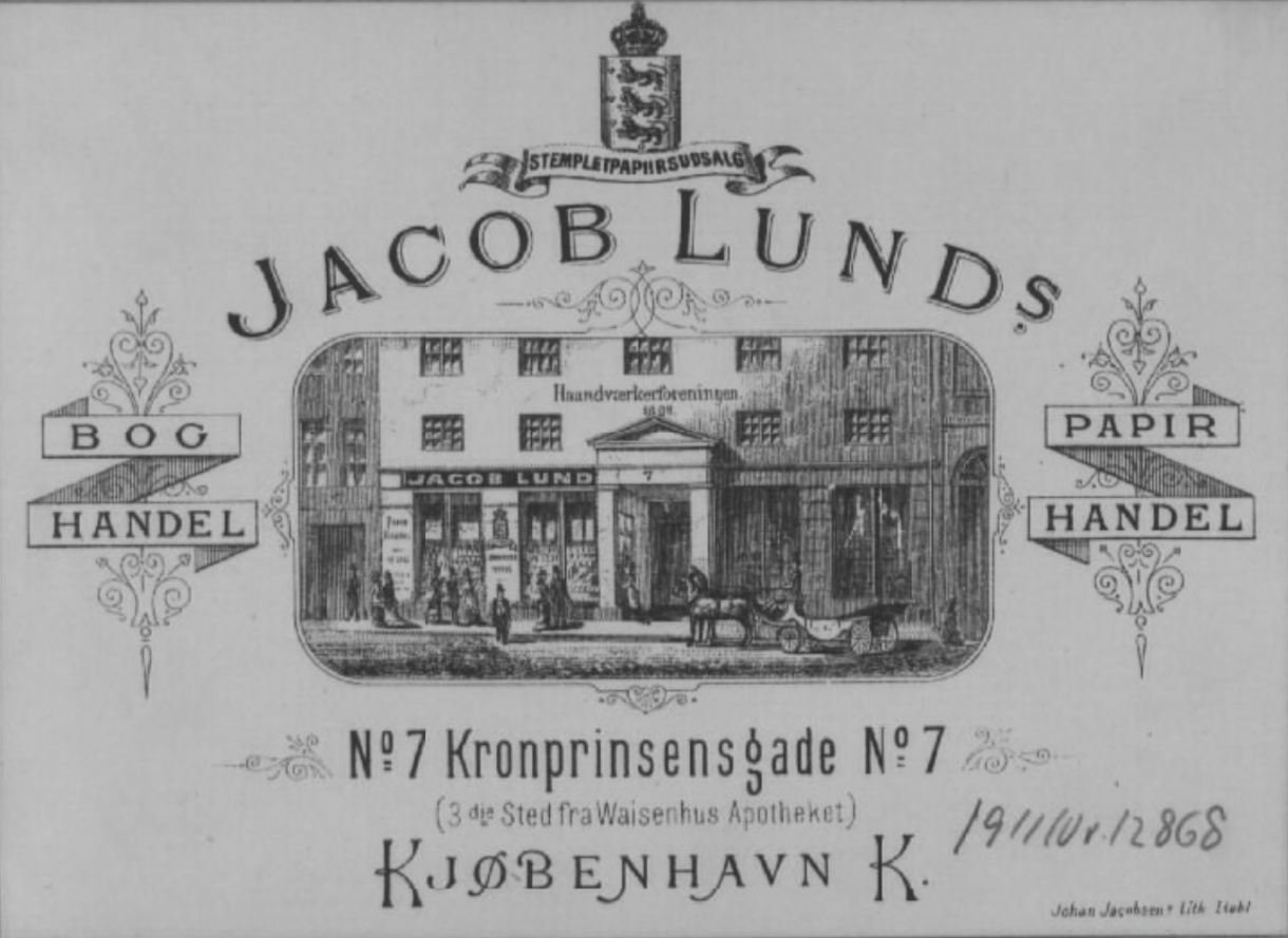 Jacob Lunds Boghandel at Kronprinsensgade 7 in Copen hagen, Denmark